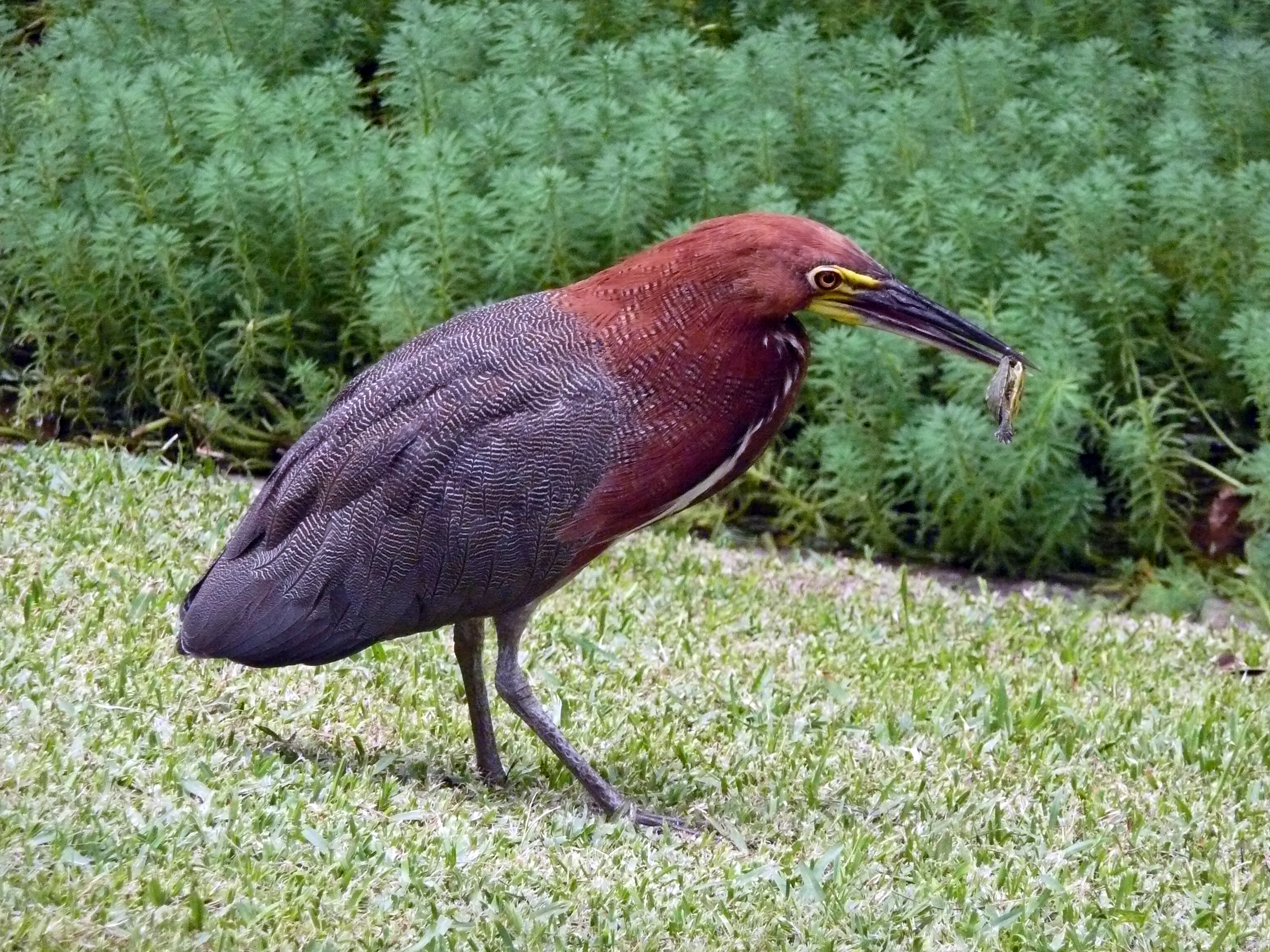 Rufescent Tiger-heron Tigrisoma lineatum lineatum Original description: Lugar / Place / Lieu : Parque del Este, Caracas, Venezuela. The bird with prey in beak (II) / El ave con su presa en el pico (II) / L'oiseau avec sa proie dans son bec. Ver la secuencia completa en la galería / To see the whole sequence, please browse the gallery / Voir la séquence complète dans la gallerie.